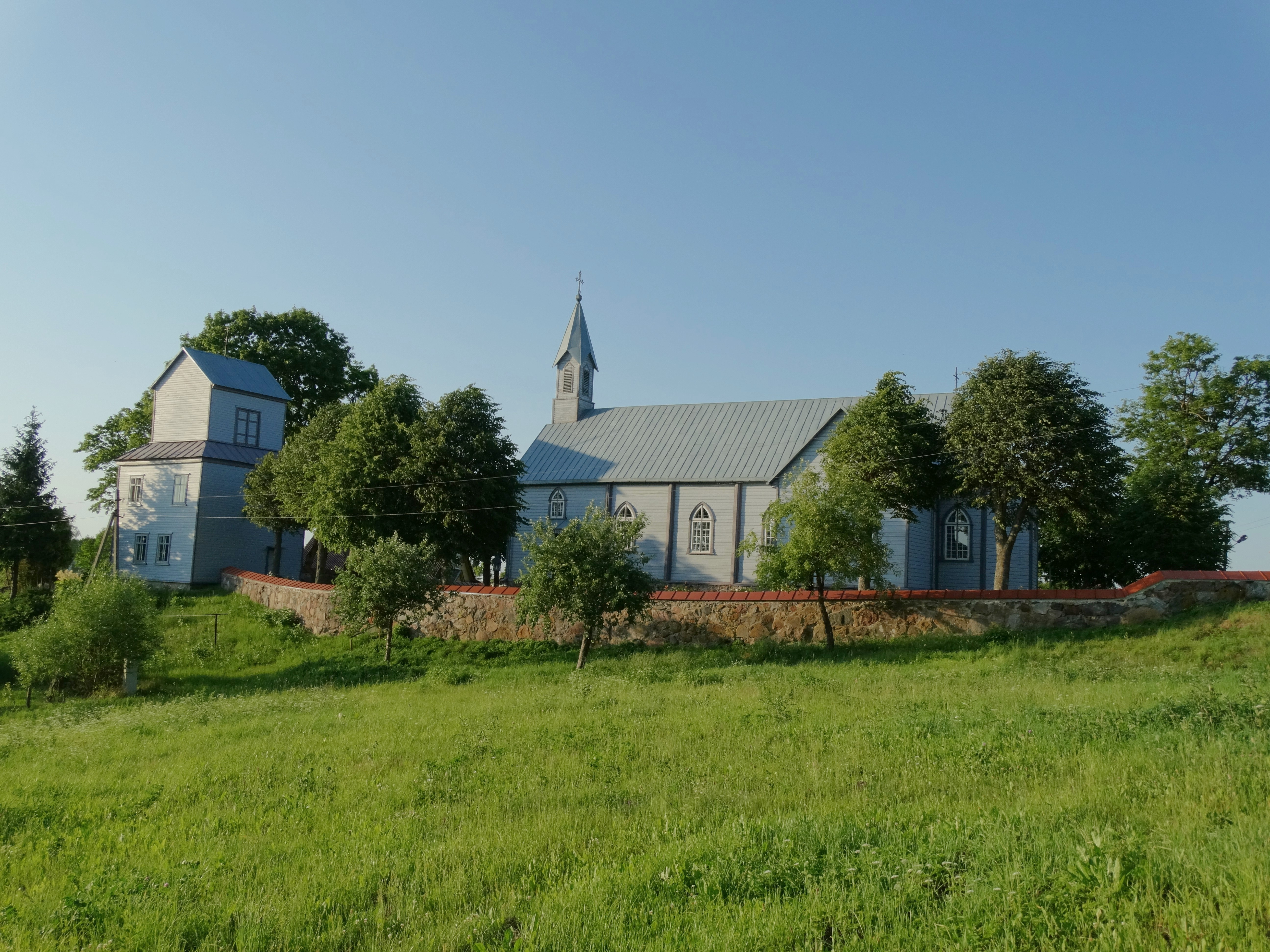 Holy Trinity Church, Viešvėnai, Telšiai District, Lithuania